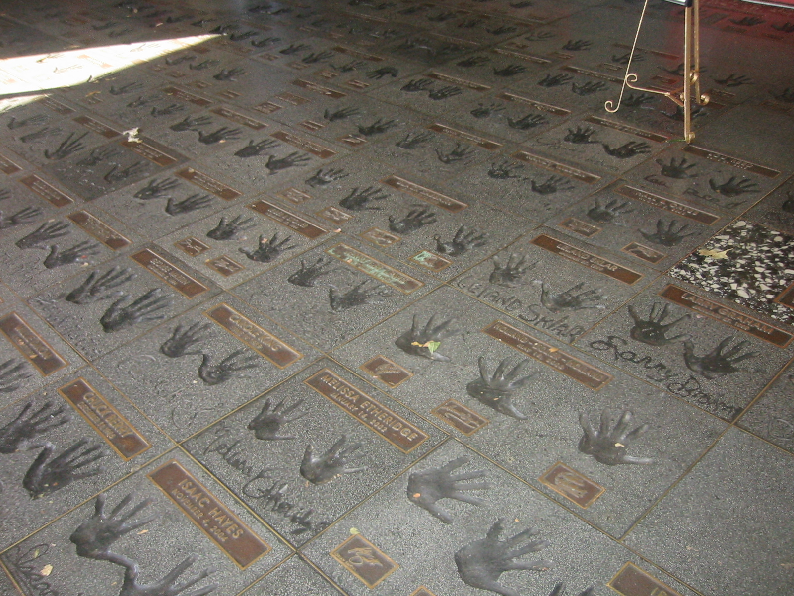 Rock Walk detail in West Hollywood, CA